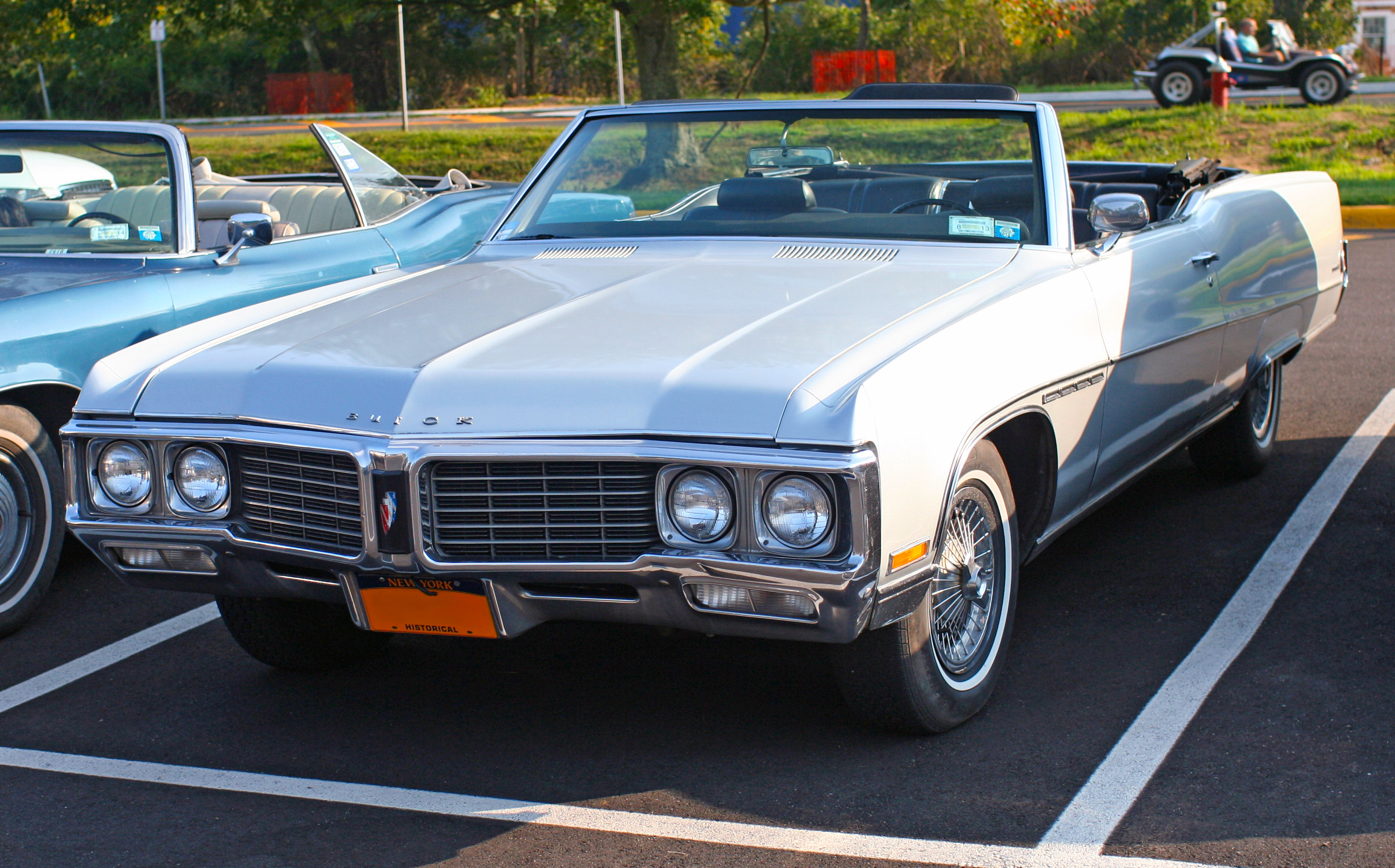 1970 Buick Electra 225 Convertible